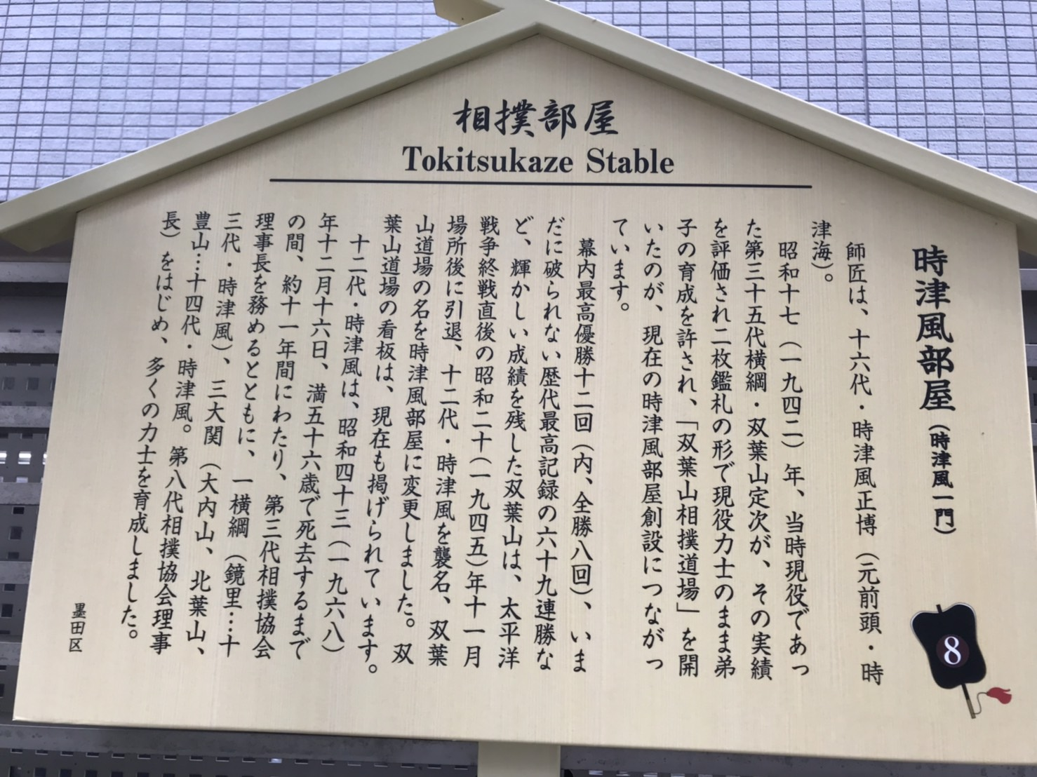 Description sign of Tokitsukaze stable history